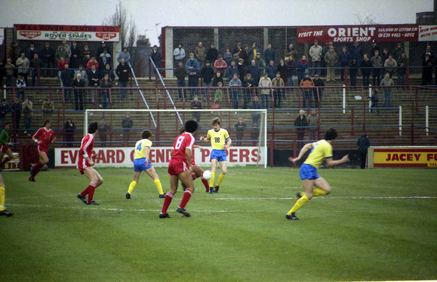 Brisbane Road Stadium, near to Leyton, Waltham Forest, Great Britain.